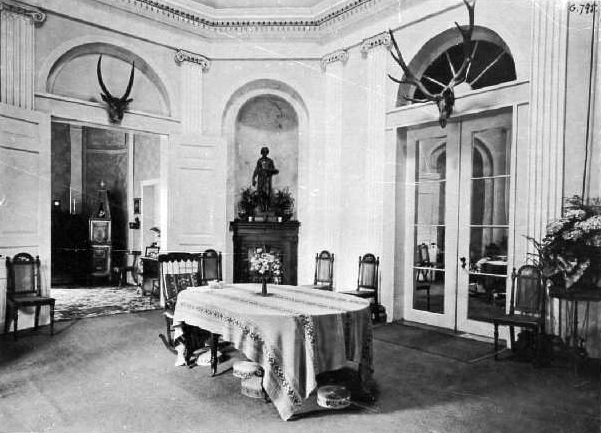 Hall in the first floor of mansion Gut Holdheim in Bremen-Oberneuland, Germany, in the year 1893.